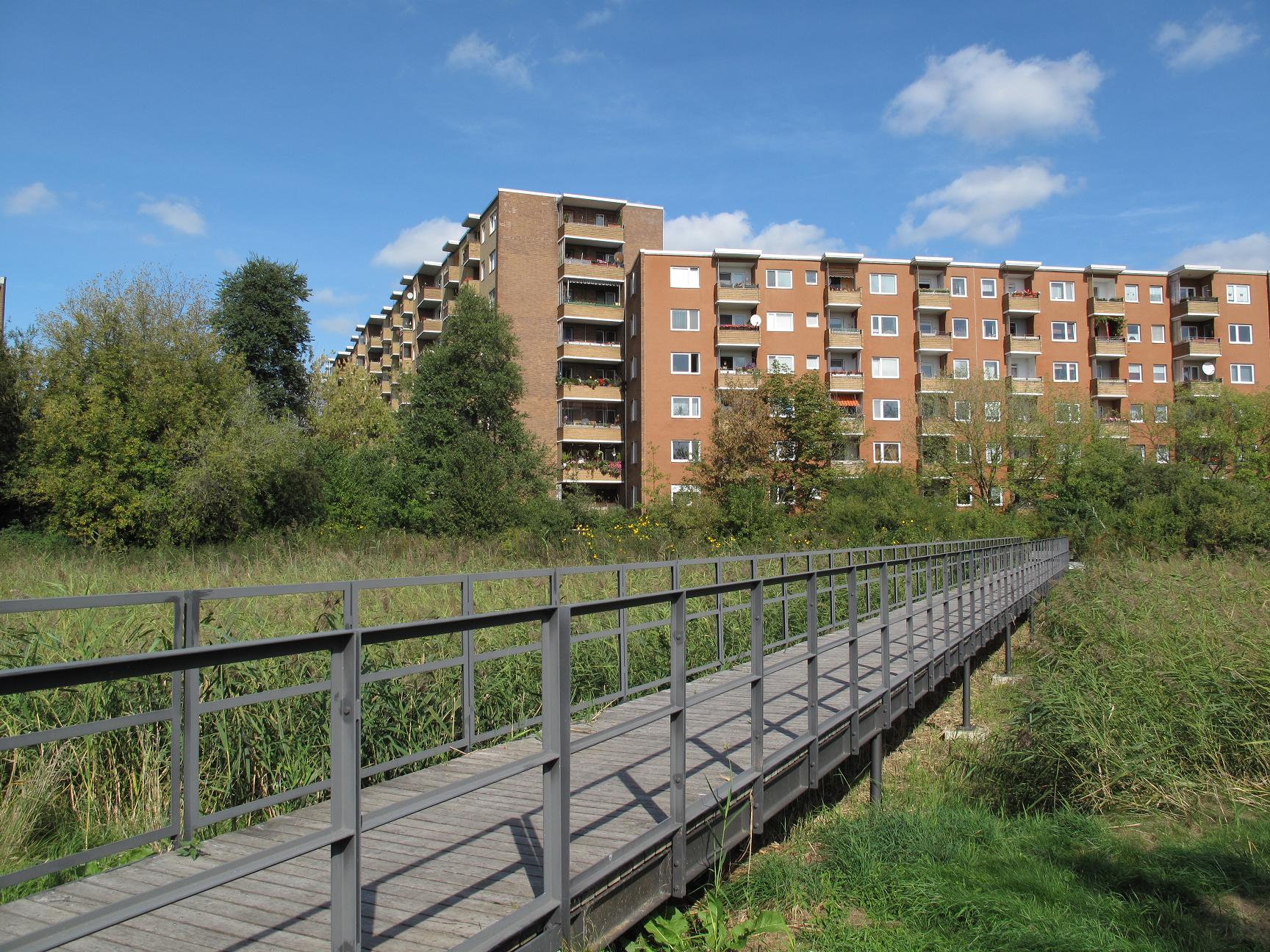 The Bullengraben (german for: bullditch) is a drainage channel to the river Havel in the localities Staaken, Wilhelmstadt and Spandau in the borough Berlin-Spandau, Germany. In 2007 there was opened the green space Bullengraben (german: „Grünzug Bullengraben“) along the 4,5 kilometre long ditch.